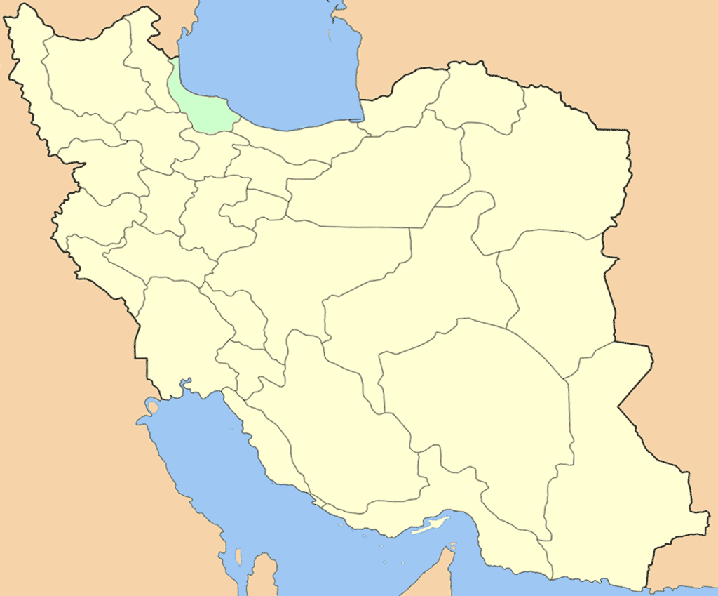 Blank locator map (orthographic projection) of Iran (province of Gilan)